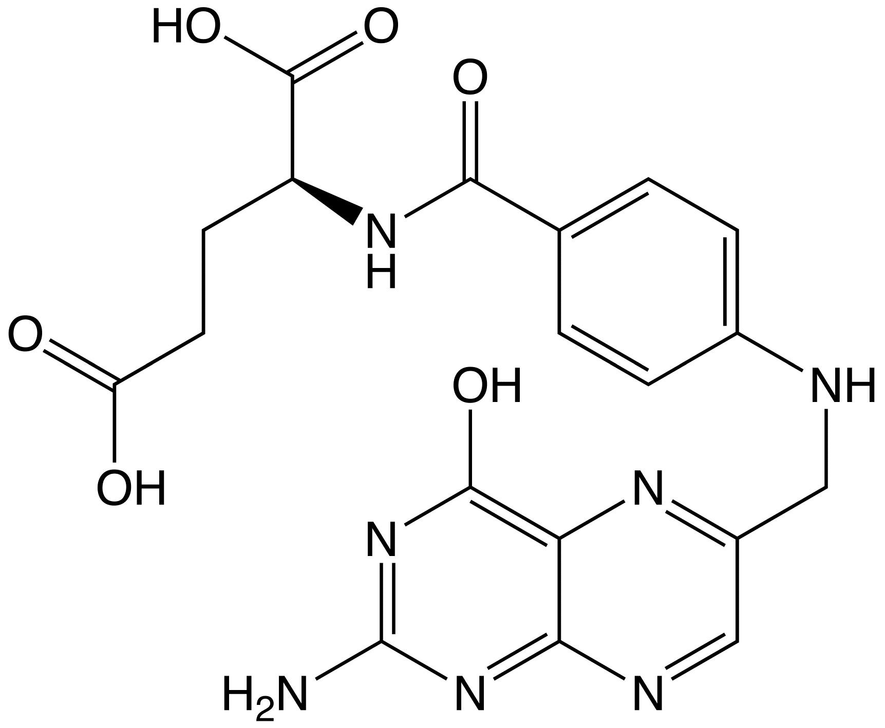 A redraw of Folic Acid. This rendering is more square in shape, which will decrease the width of the drug/chemical box and change the article to be similar to others with drug/chem boxes. I drew this myself, and release it to the public domain.